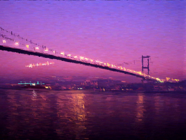 Computer art